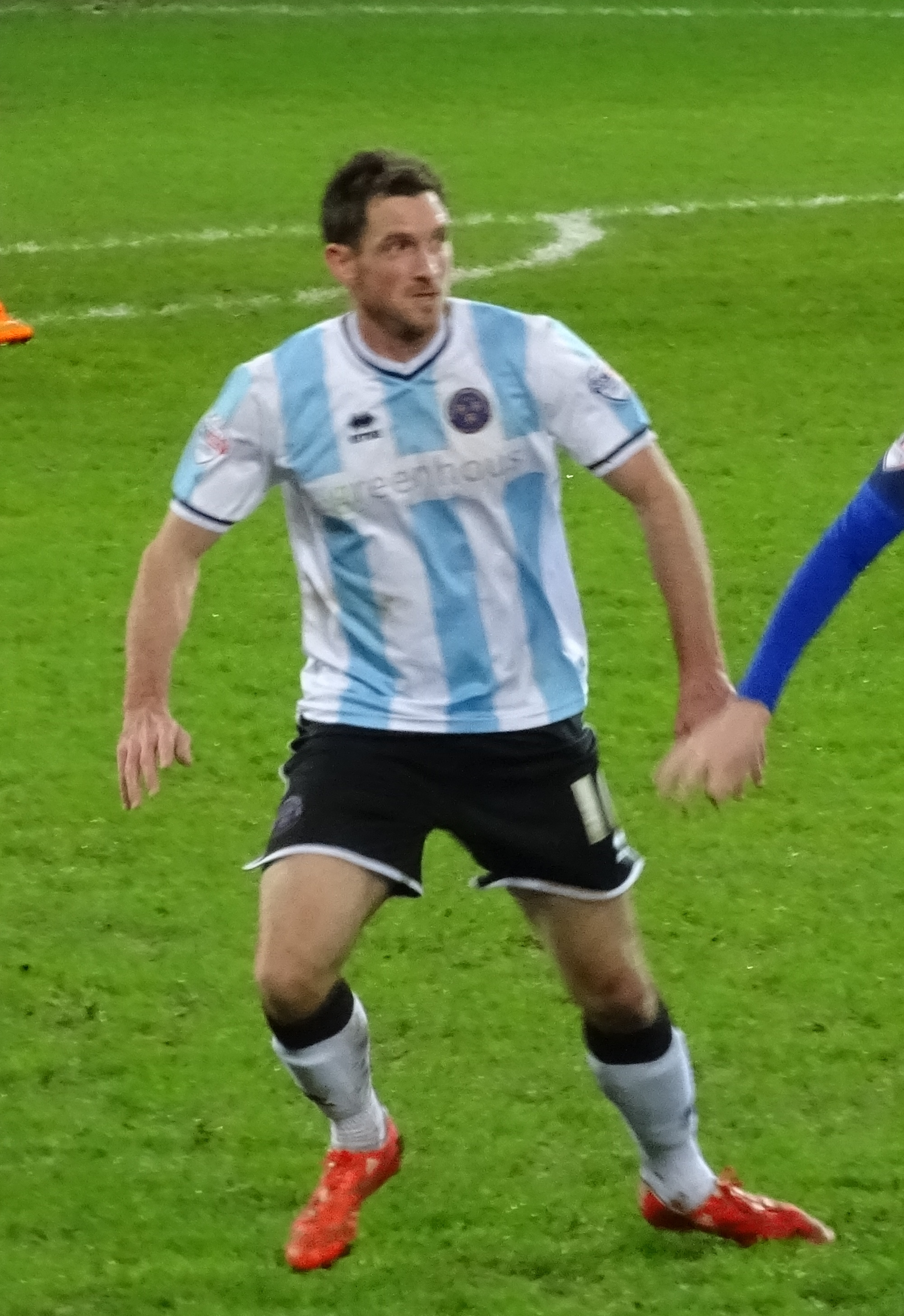 Footballer Scott Vernon in 2016.